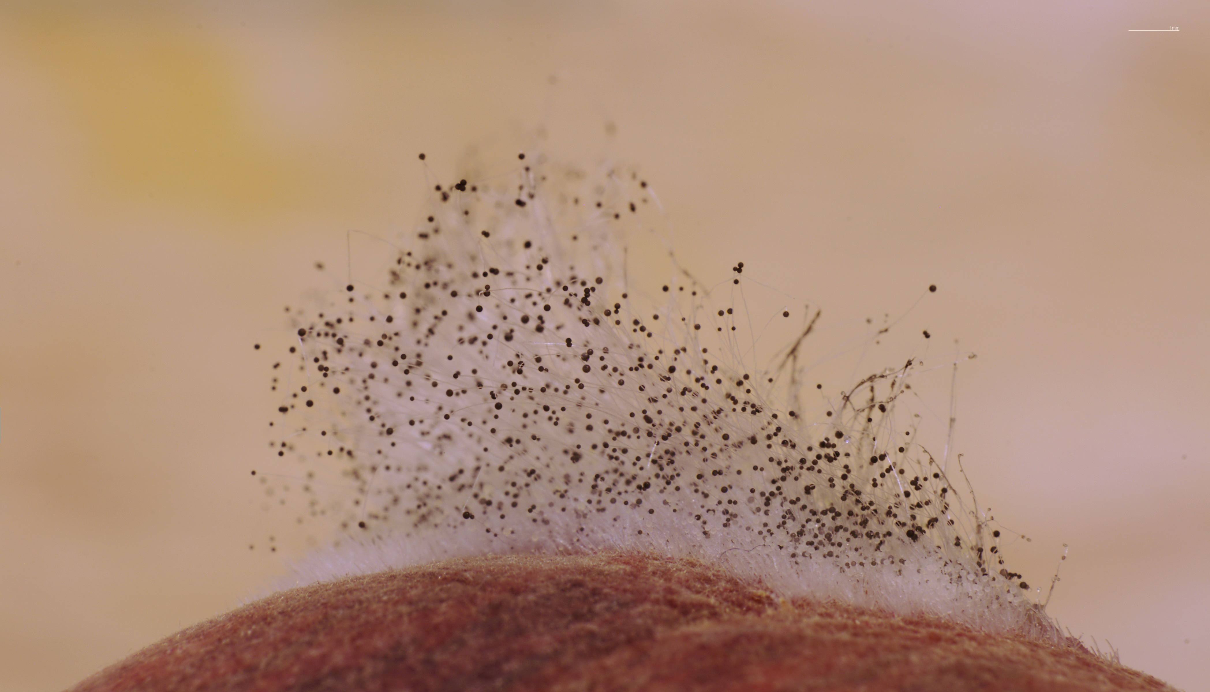 Pin mould on a peach.